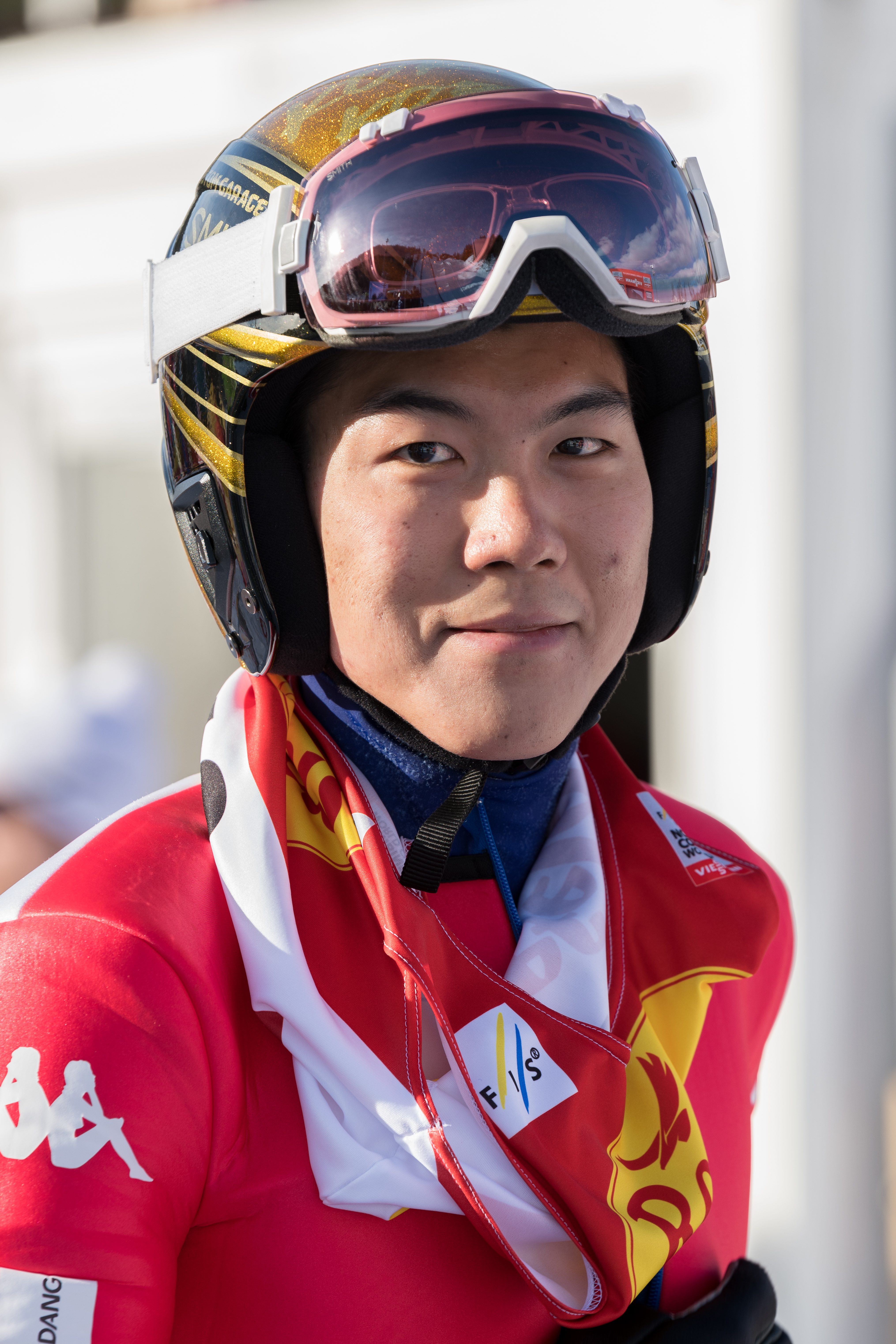 Seefeld-Triple 2018, first day January 26th. Picture shows Park Je-un